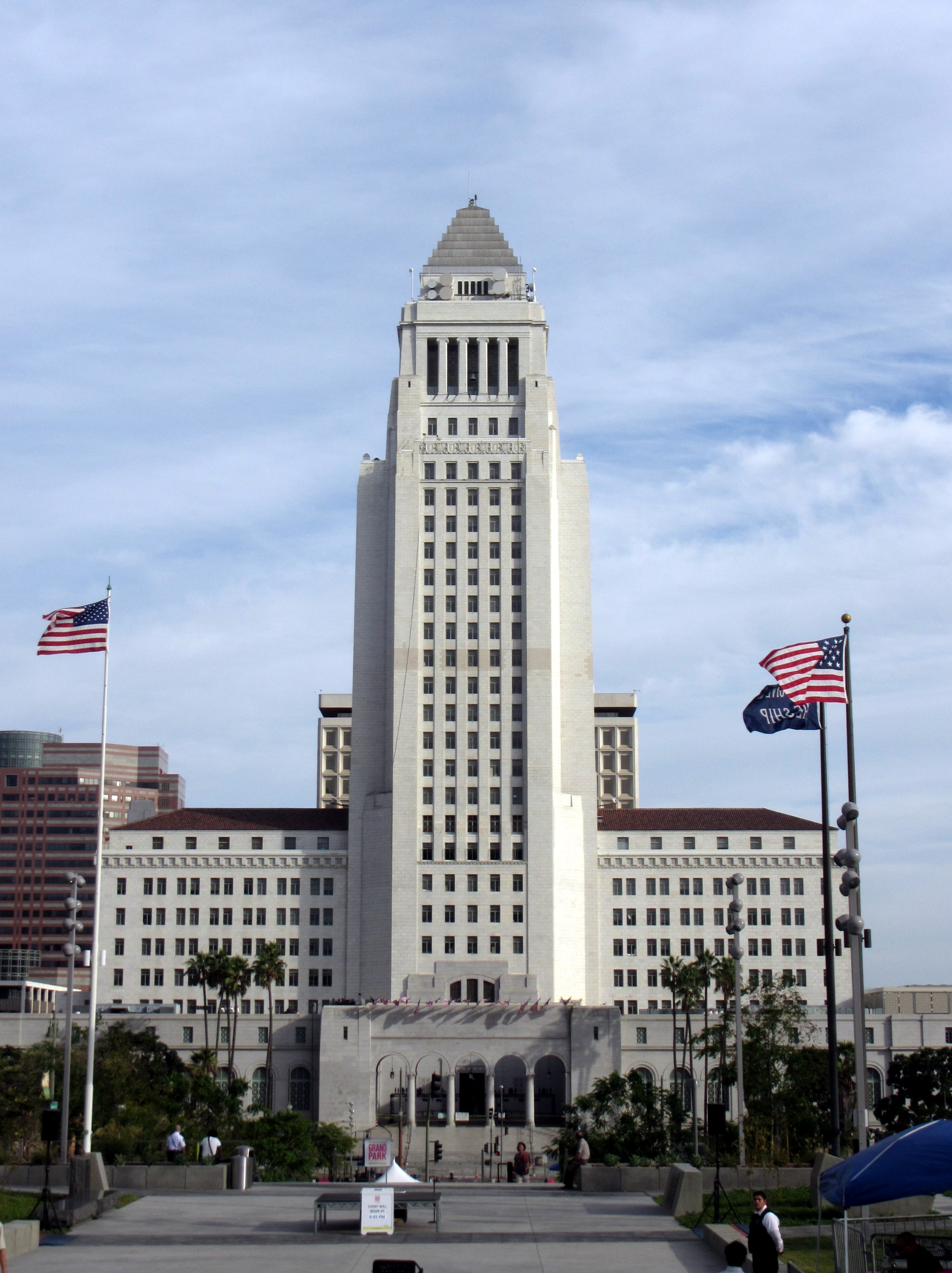 Los Angeles City Hall